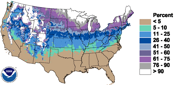 A map depicting the percent chance of a white Christmas (greater than one inch of snow on the ground on Christmas) for locations in the United States.